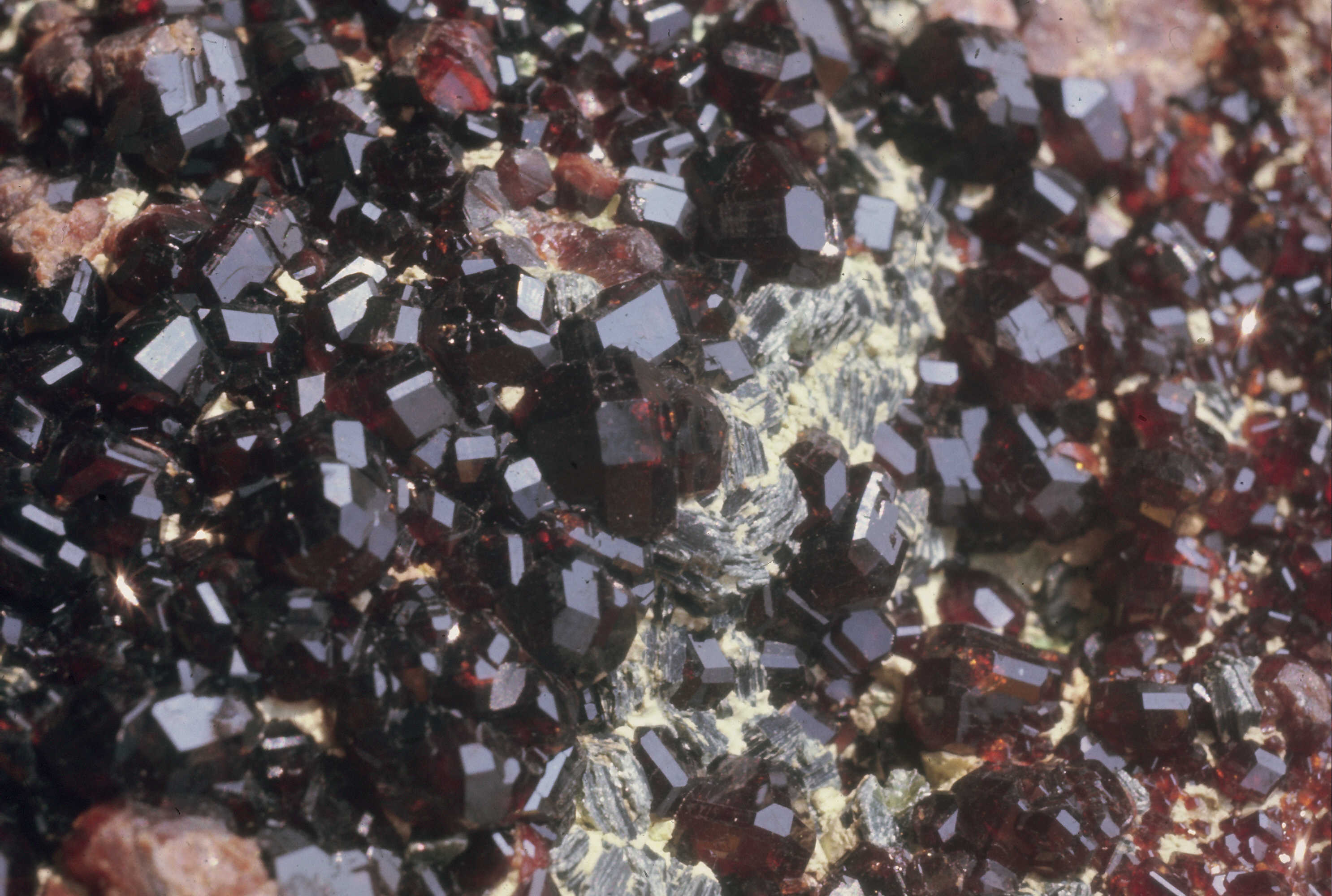 Hessonite garnet; 5-8 mm crystals ; Valle della Gava, Voltri, Liguria, Italy